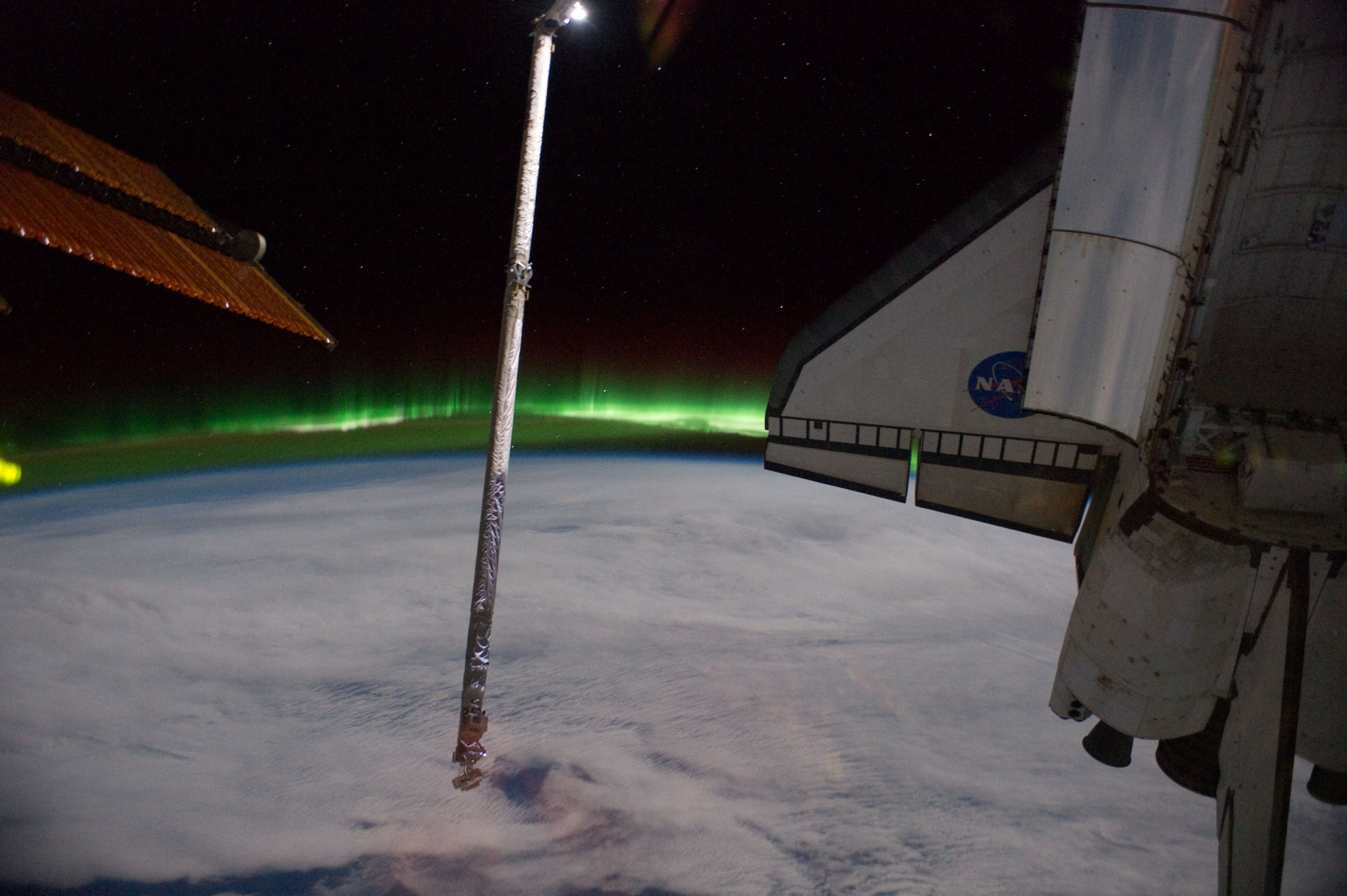 One of the STS-135 Atlantis crewmembers took this photo of the Southern Lights or Aurora Australis while visiting the International Space Station on July 14, 2011. Part of the orbiter boom sensor system (OBSS) is seen near center, as it was attached on the end of the shuttle's robotic arm (out of frame). A part of the port side of the shuttle is at right and one the space station's solar panels, at left edge.